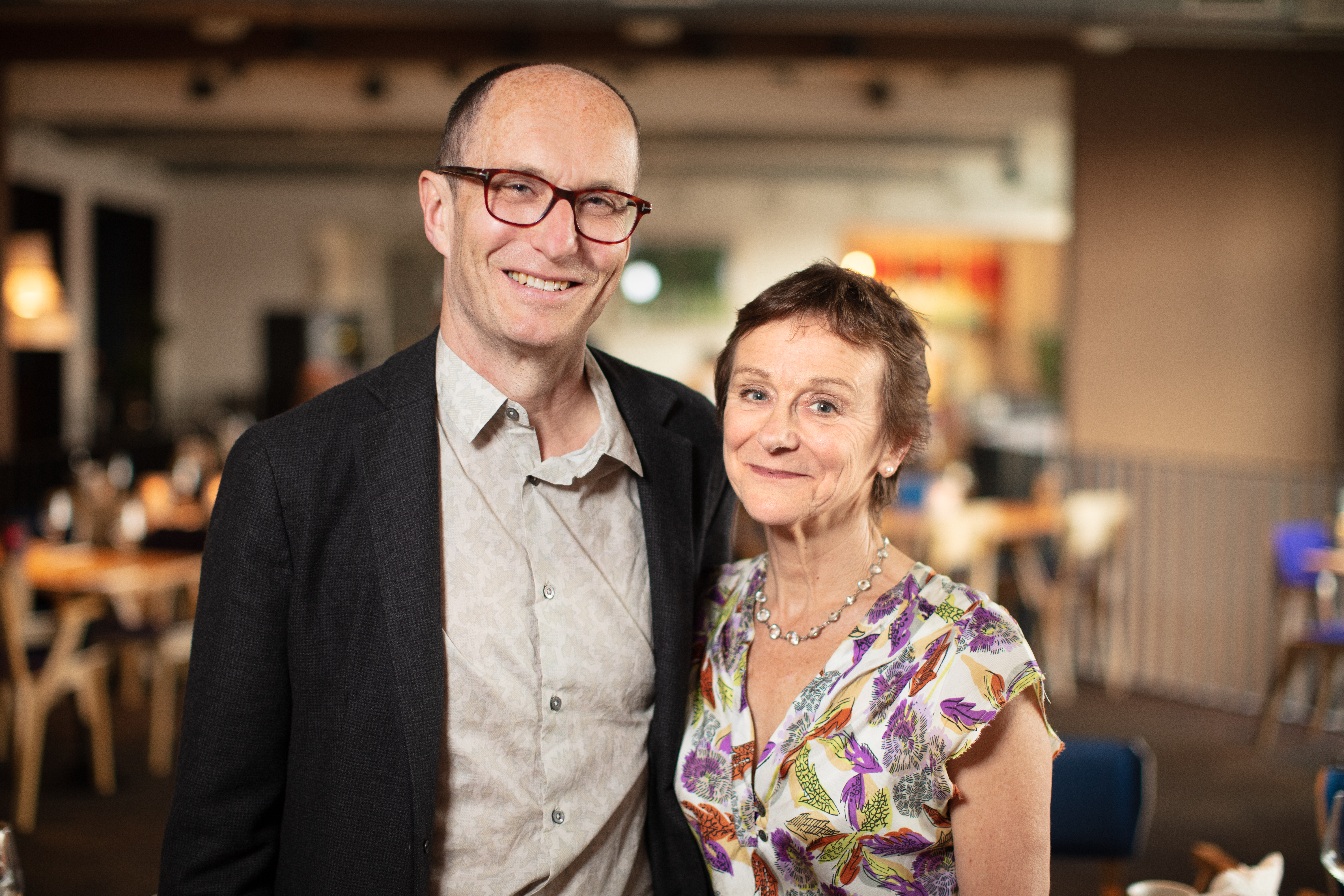 This portrait was taken before the literary talkshow with authors Nicci Gerard and Sean French and their editor A.J.Finn at Natlab by PlazaFutura, Eindhoven, The Netherlands.